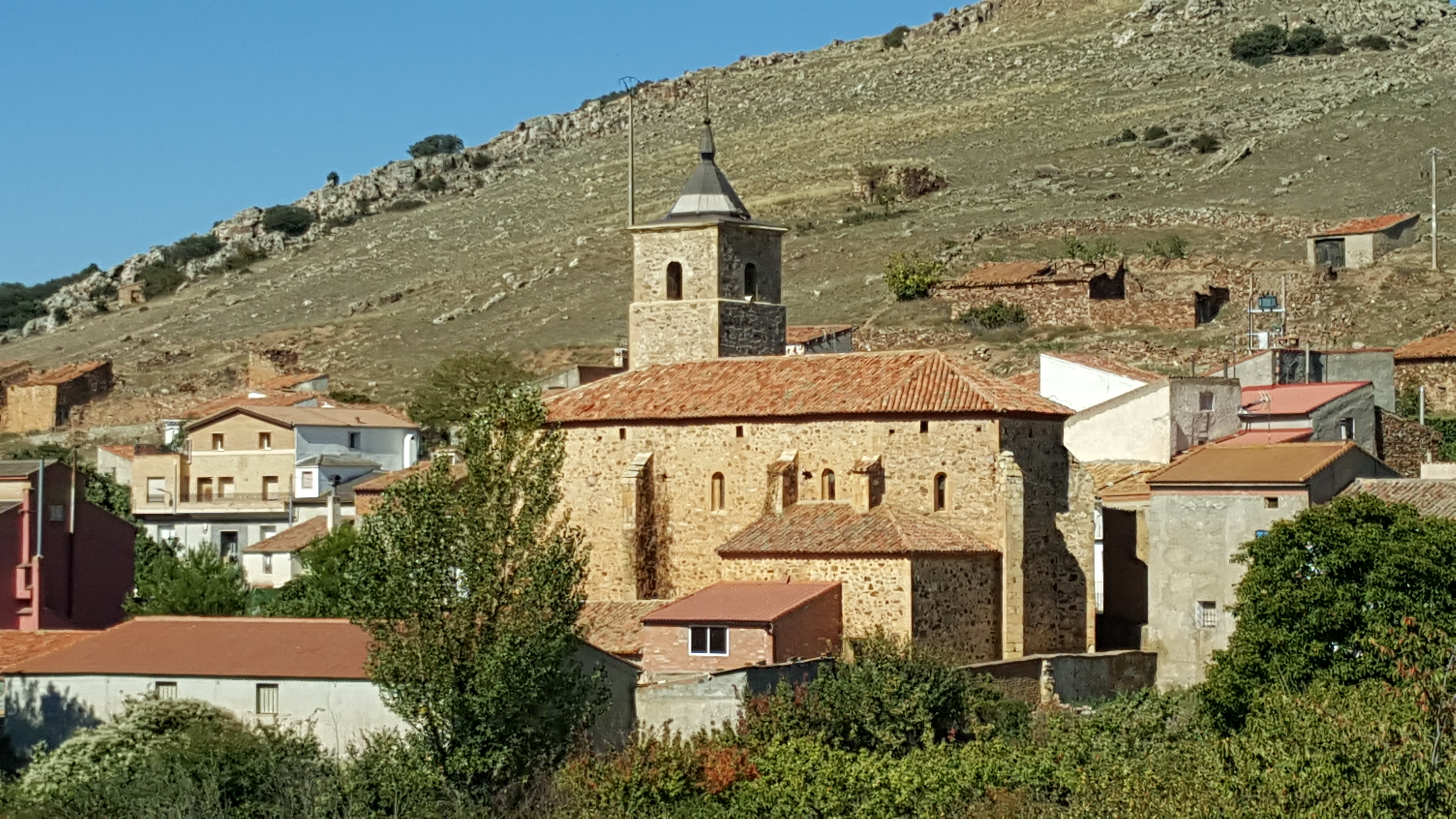 Church of Santiago, Santed, Zaragoza, Spain